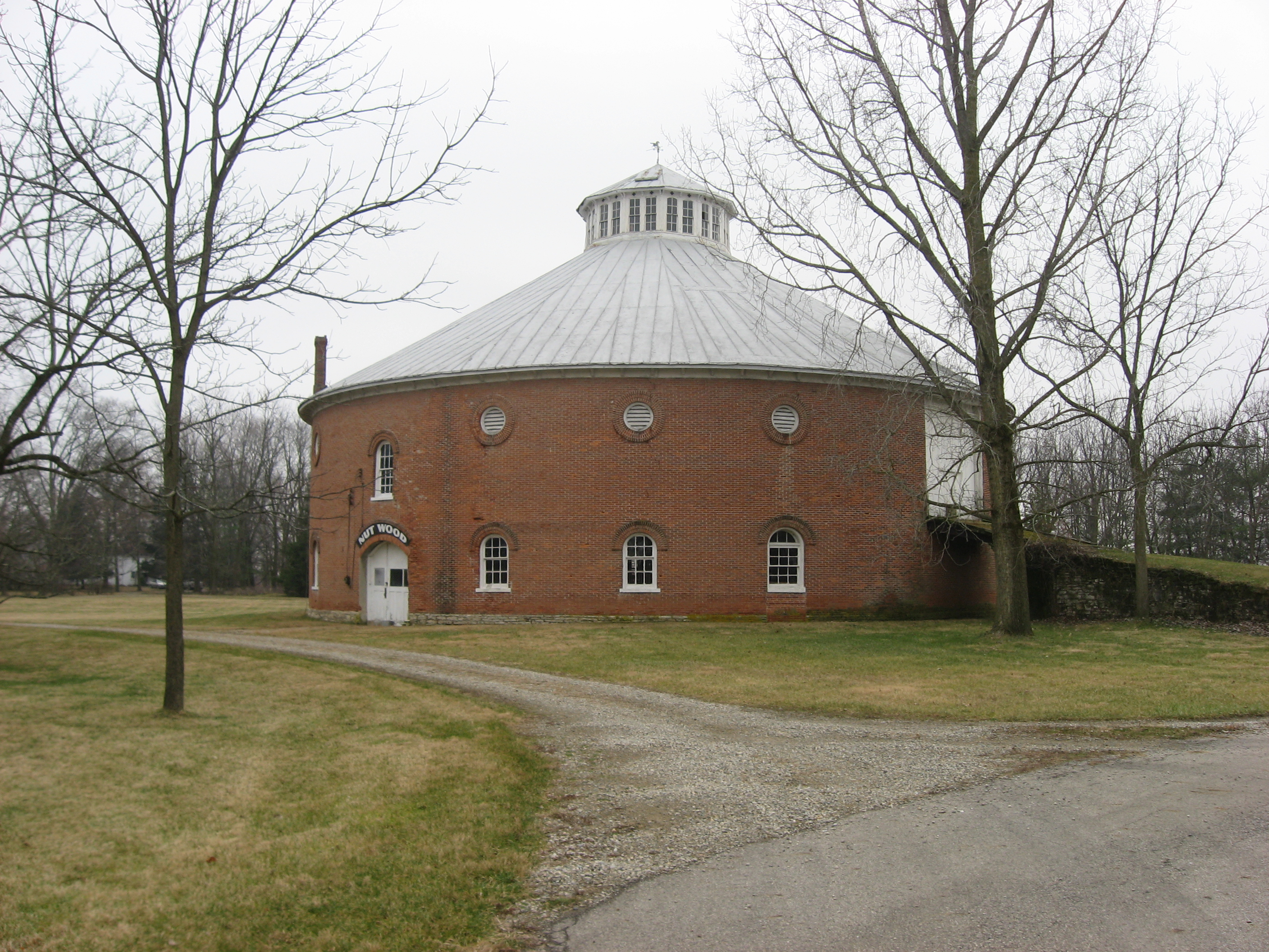 Round barn, built in 1861, on the grounds of Nutwood Place, a former farm located off N. Main Street (U.S. Route 68) on the northern edge of Urbana, Ohio, United States. Dimly visible through the trees on the left side of the picture is the white former farmhouse, built in 1815. The farm is listed on the National Register of Historic Places.